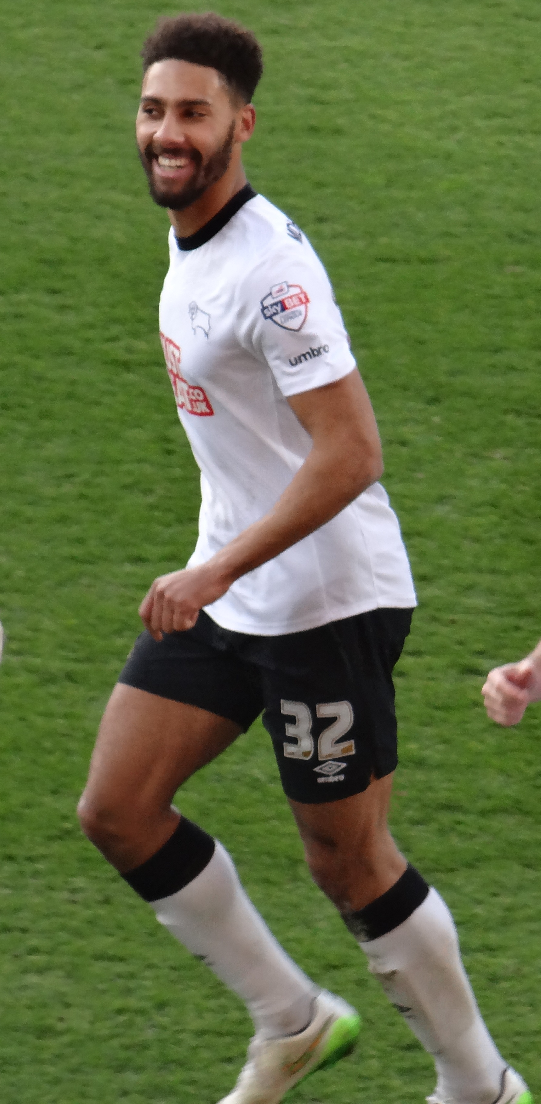 Footballer Ryan Shotton in 2015